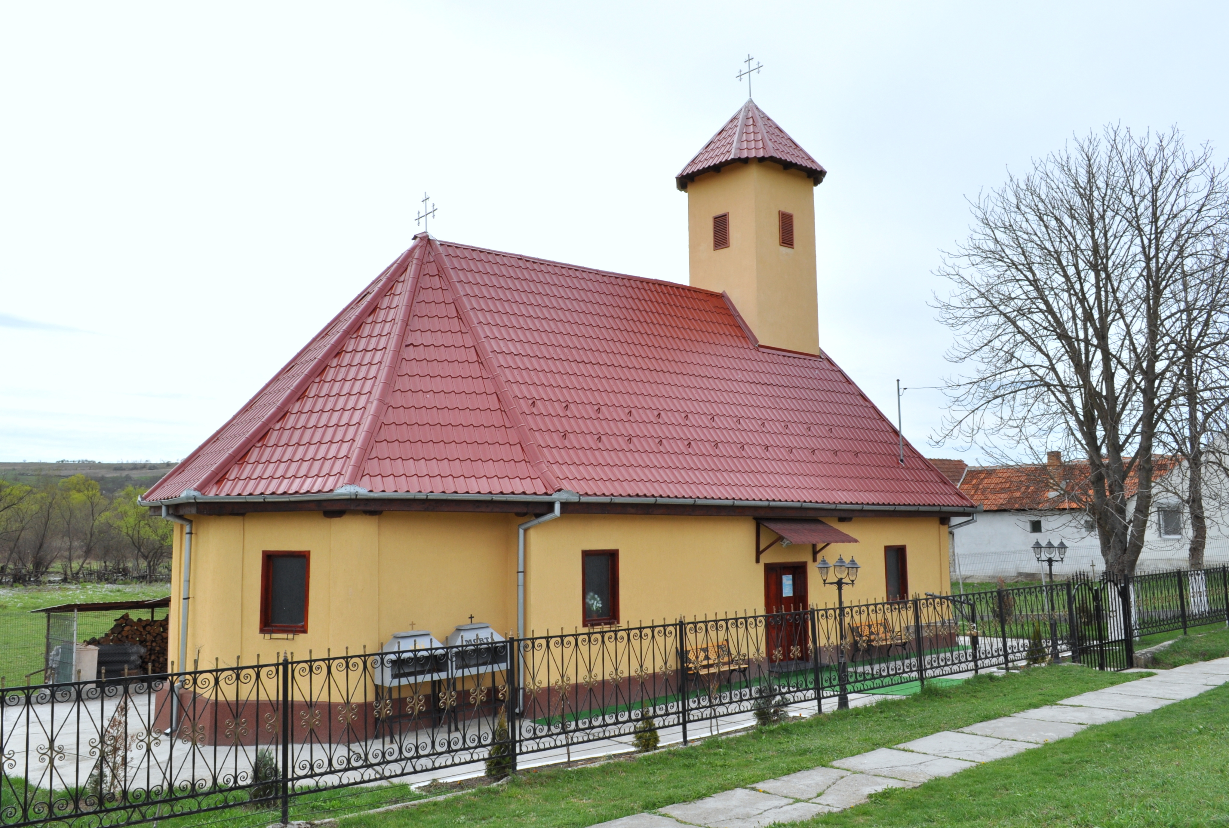 The wooden church in Zăbalț, Arad county, Romania